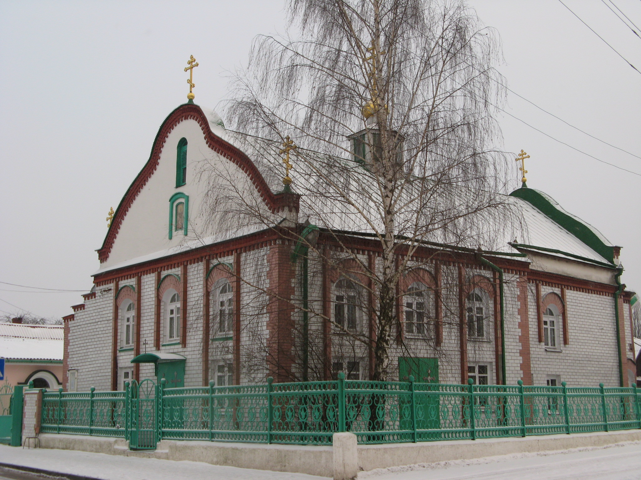 Orthodox church on Schmidta str in Babruysk